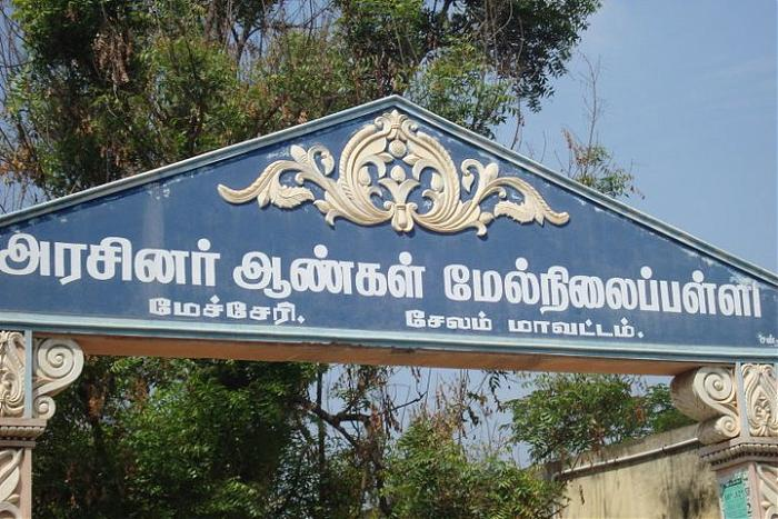 Mecheri school arch